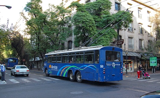 Mendoza trolleybus 59 (ex-Solingen, Germany) in the city center.